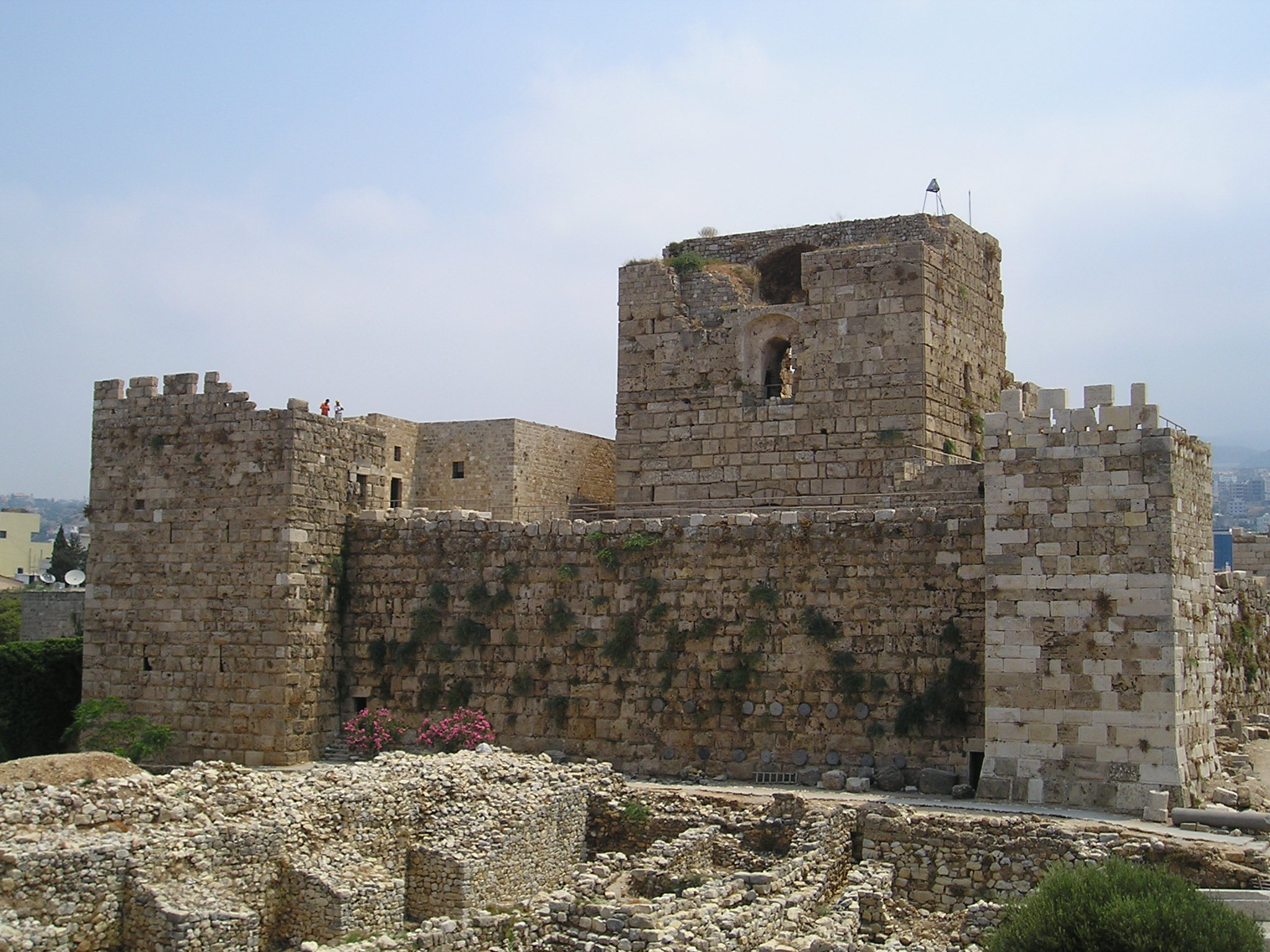 Byblos, Lebanon - Crusader Castle